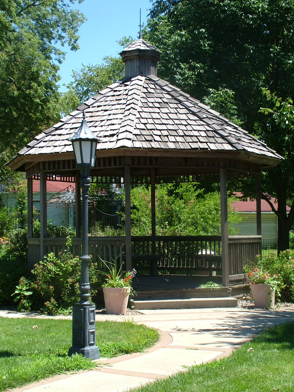 Alpha gazebo located at the intersection of US Route 150 and "D" Street in Alpha, Illinois, USA